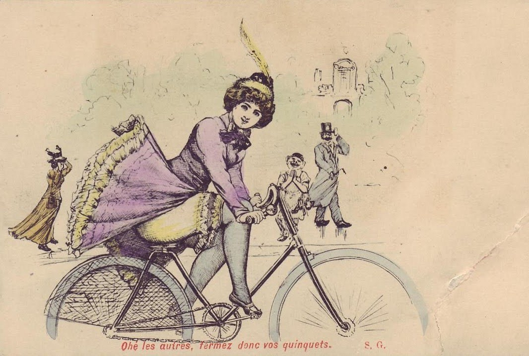 Postcard with a girl on a bicylce, France, c. 1900s